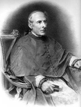 Francesco Pentini, cardinal of the Roman Catholic Church